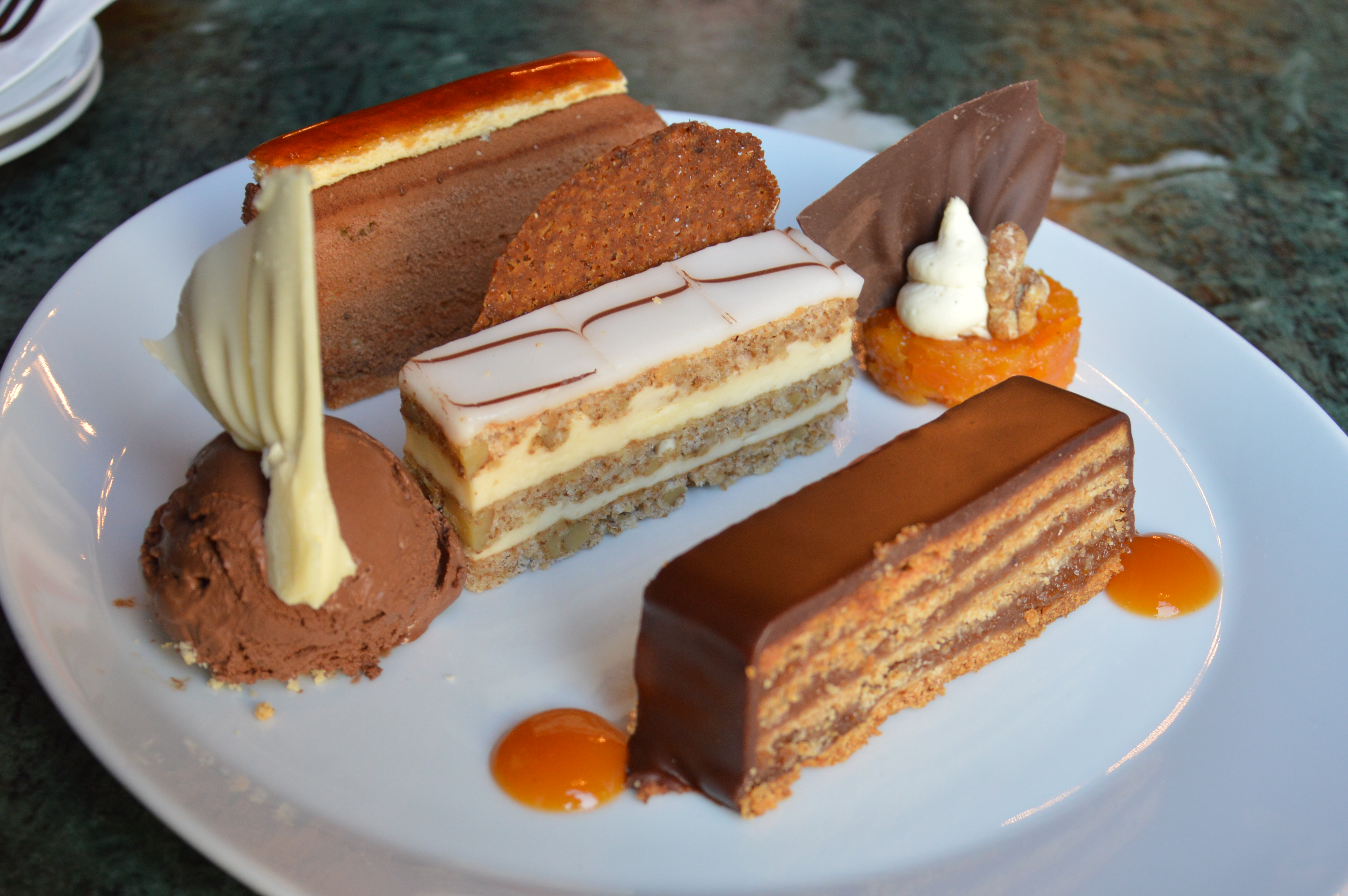 Square slices of (L-R) Dobos, Eszterházy and Zserbó cakes, as served at Café Gerbeaud in Vörösmarty tér, Budapest District V, Hungary. Chocolate ice-cream and apricot as garnish.